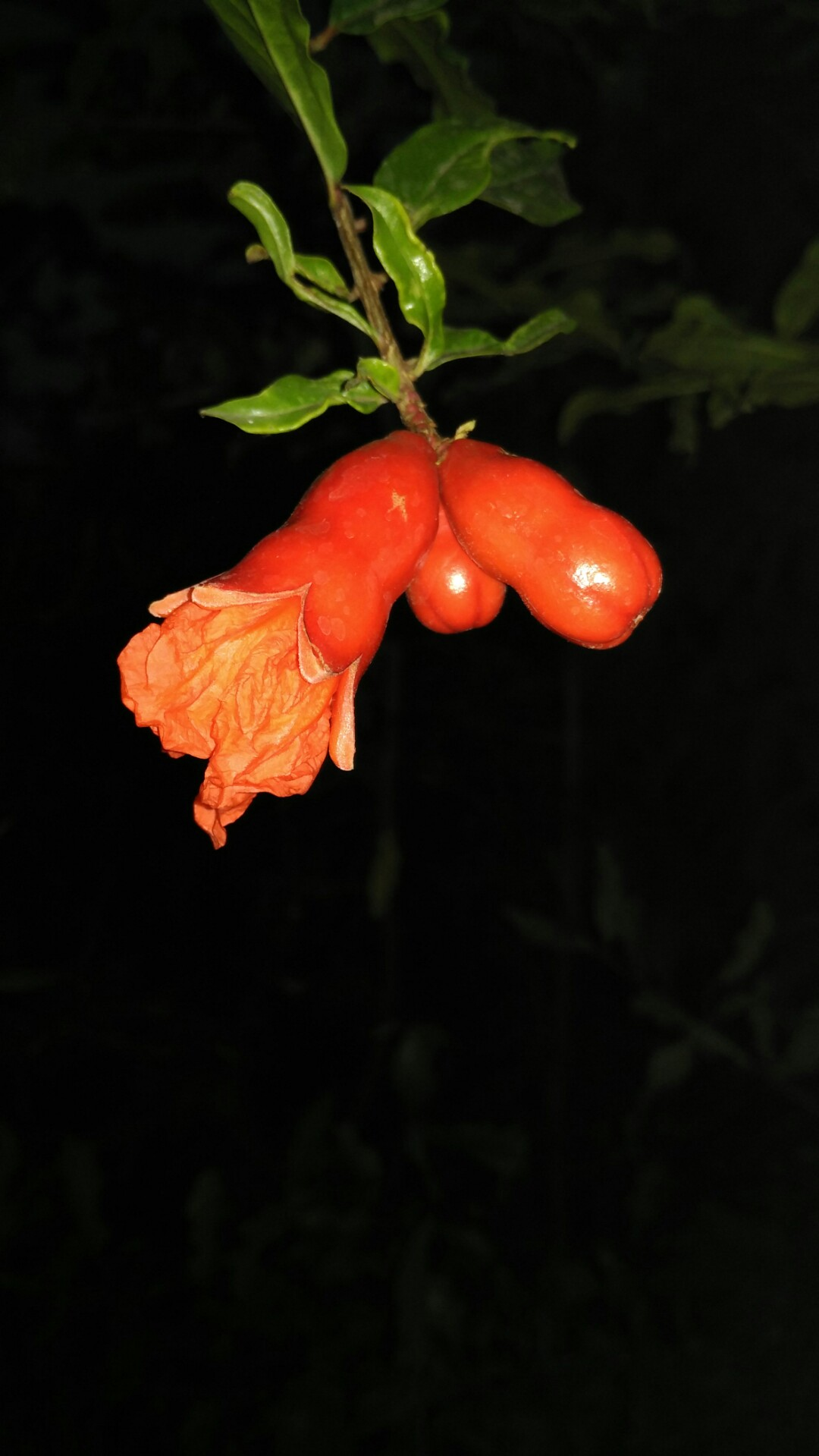 flower of pomegranate in visakhapatnam